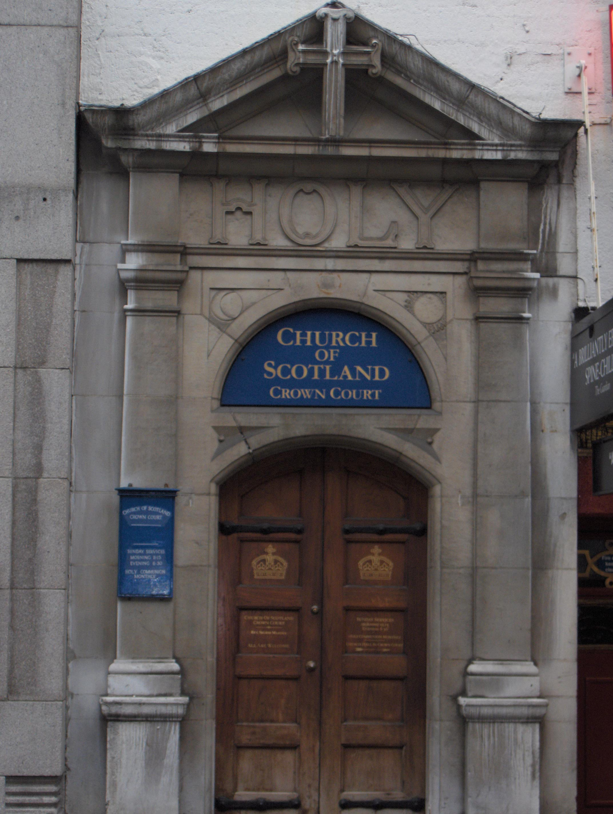 Main entrance of Crown Court Church (Church of Scotland), Westminster, London WC2